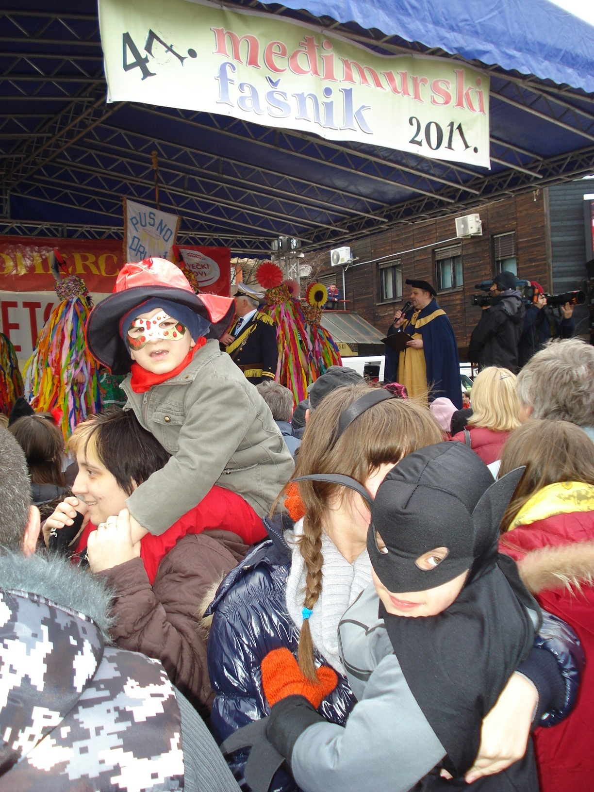 Medjimurje Carnival 2011 (Croatia) - Masks in the audience